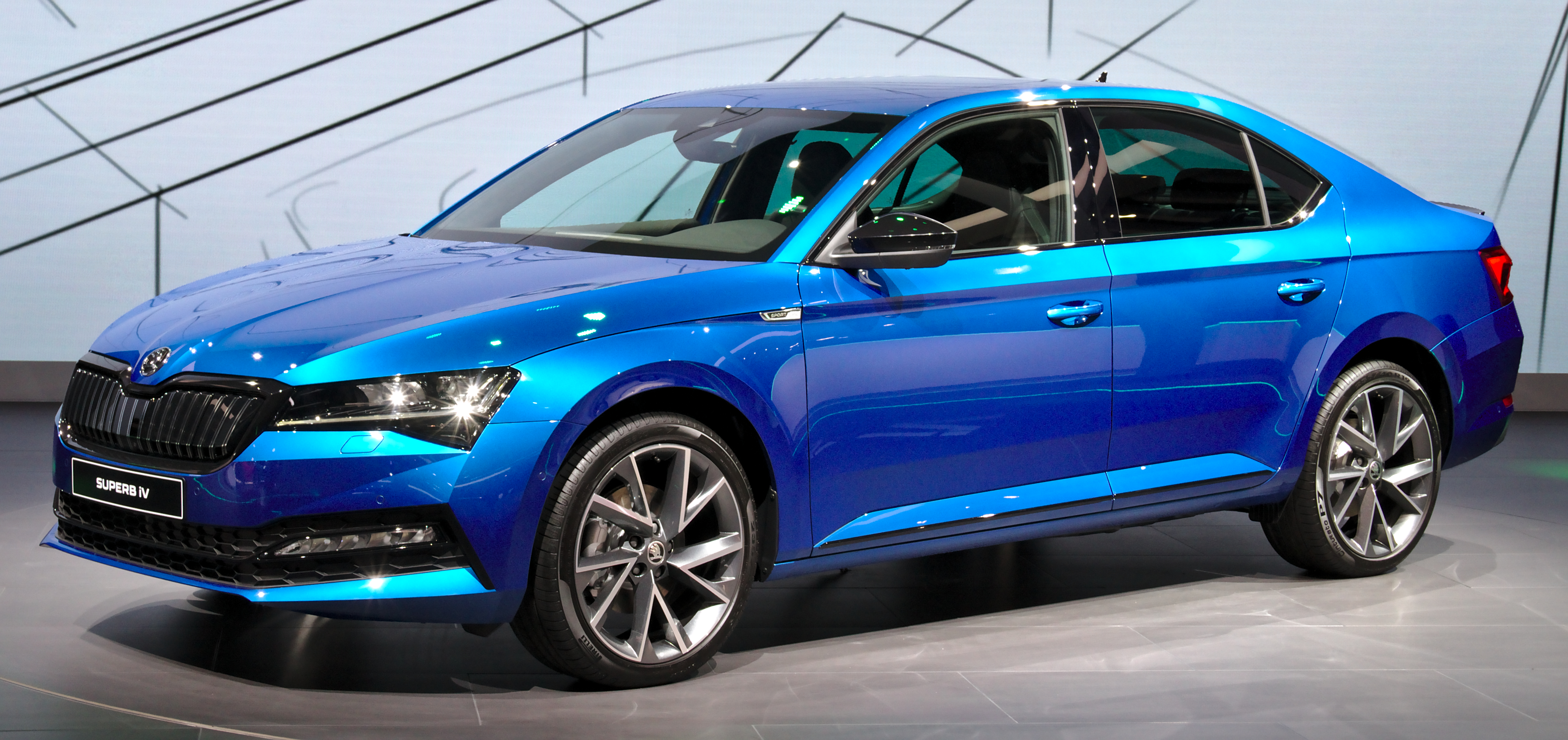 Škoda_Superb_III_iV at IAA 2019